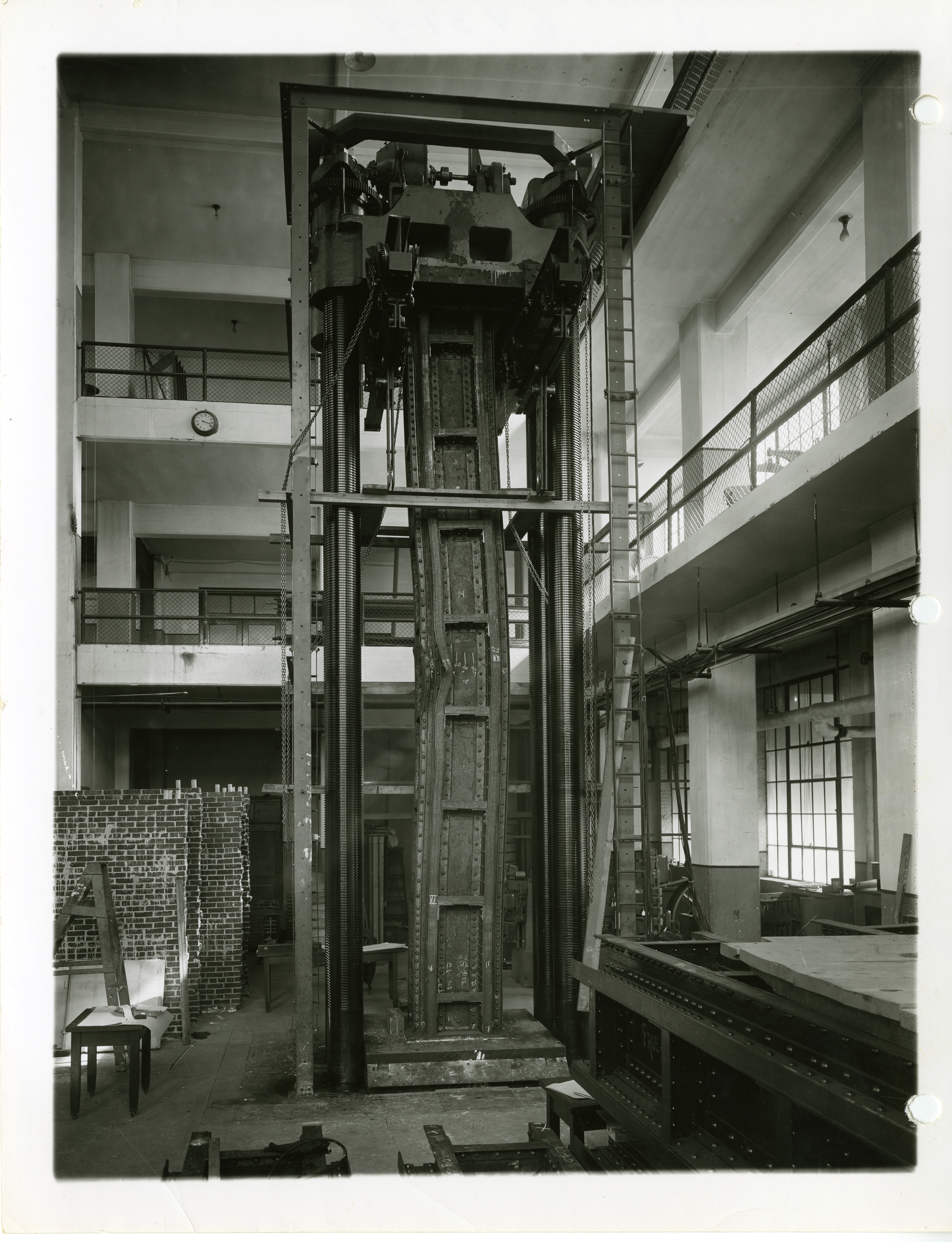 Tests of tower column sections of the Hudson River Bridge of New York City, NY